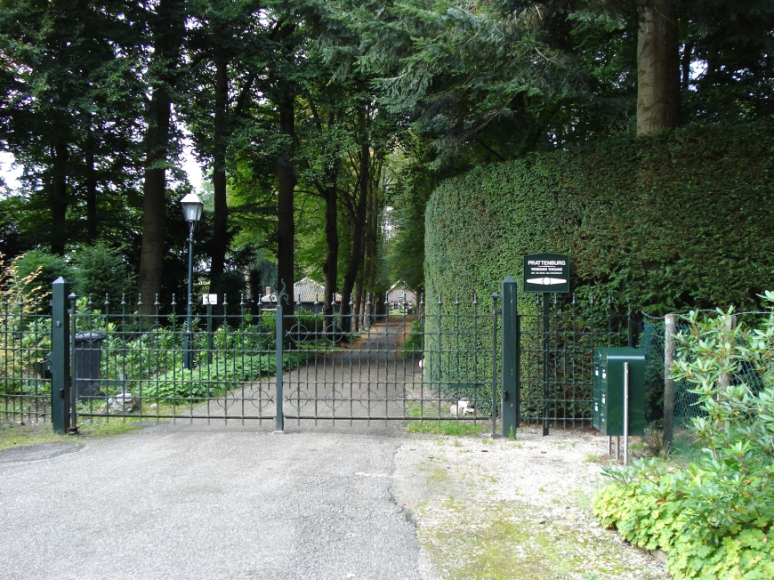 Gate